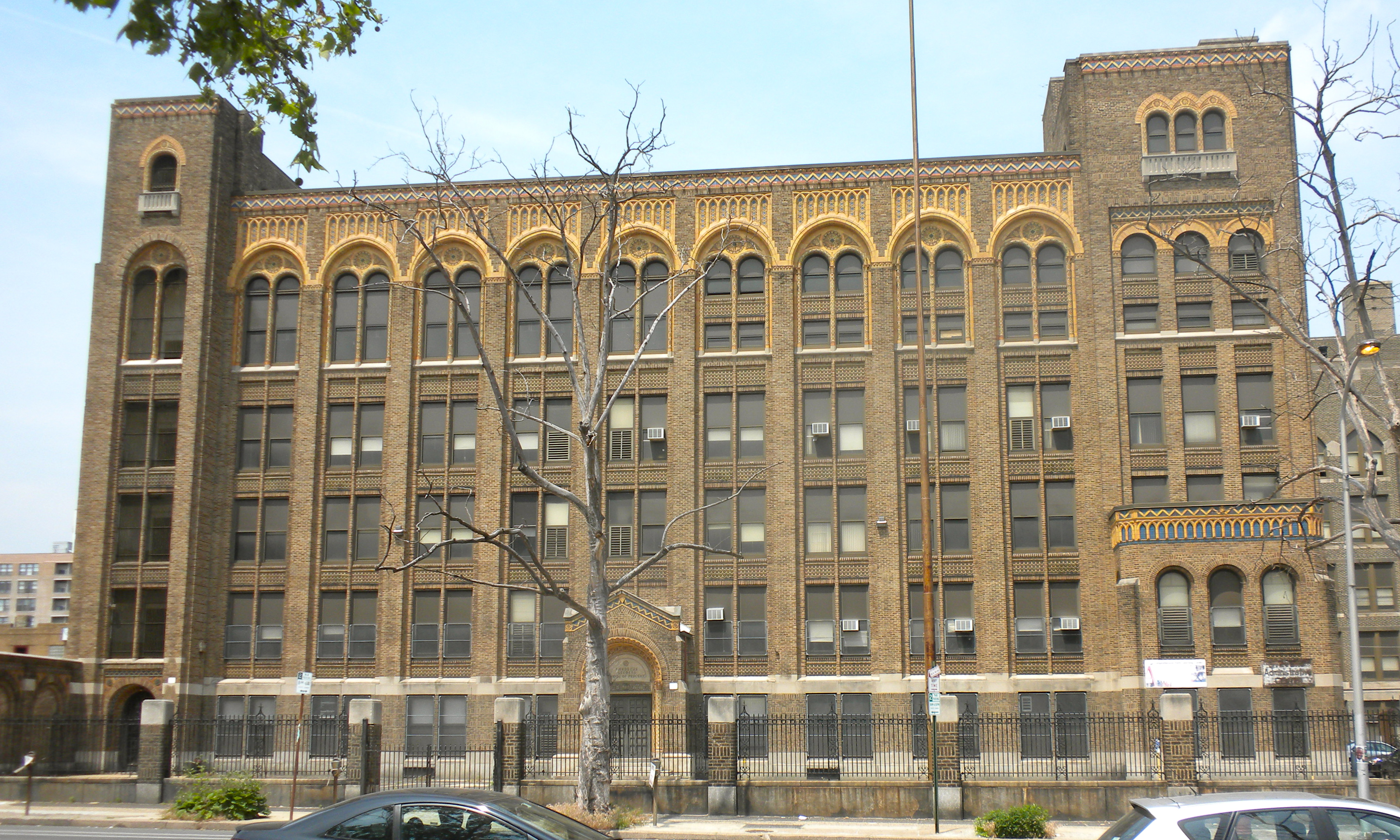 Thaddeus Stevens School of Observation on NRHP since December 4, 1986. At 1301 Spring Garden Street, in the Poplar neighborhood north of Center City Philadelphia. Named after the 1860s Radical Republican leader